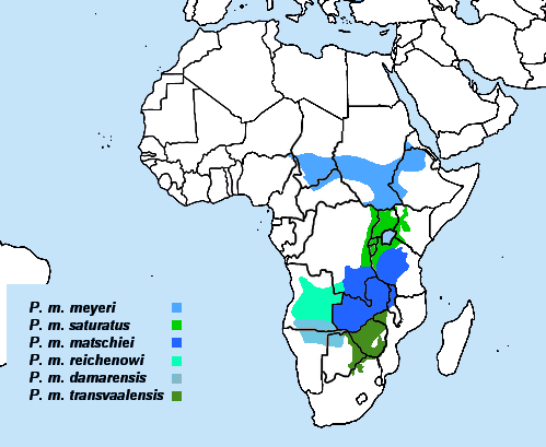 Meyer's Parrot, Poicephalus meyeri: Approximate ranges of the six races. Colours are assigned suggesting the abdomen colour of the particular race.